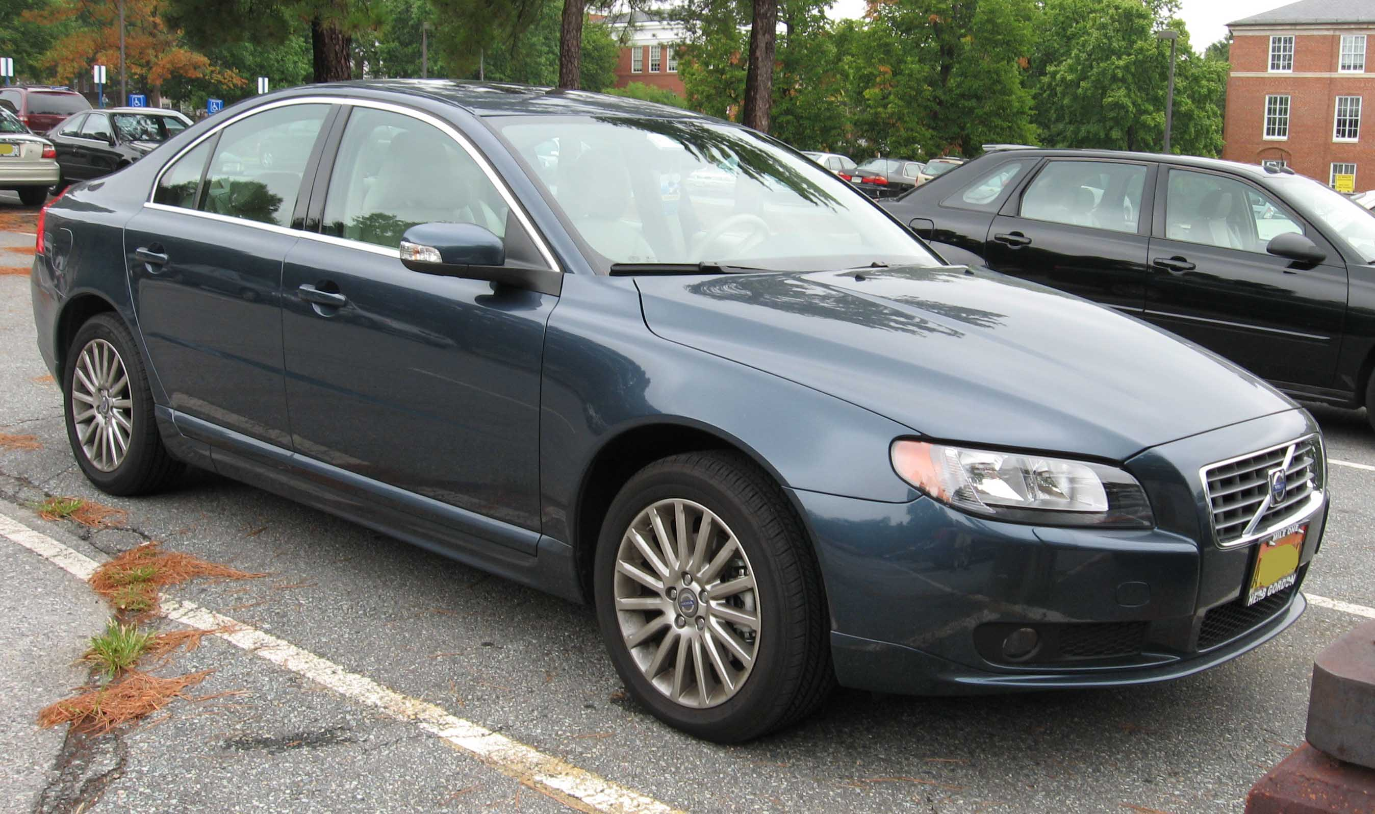 2007 Volvo S80 photographed in USA.